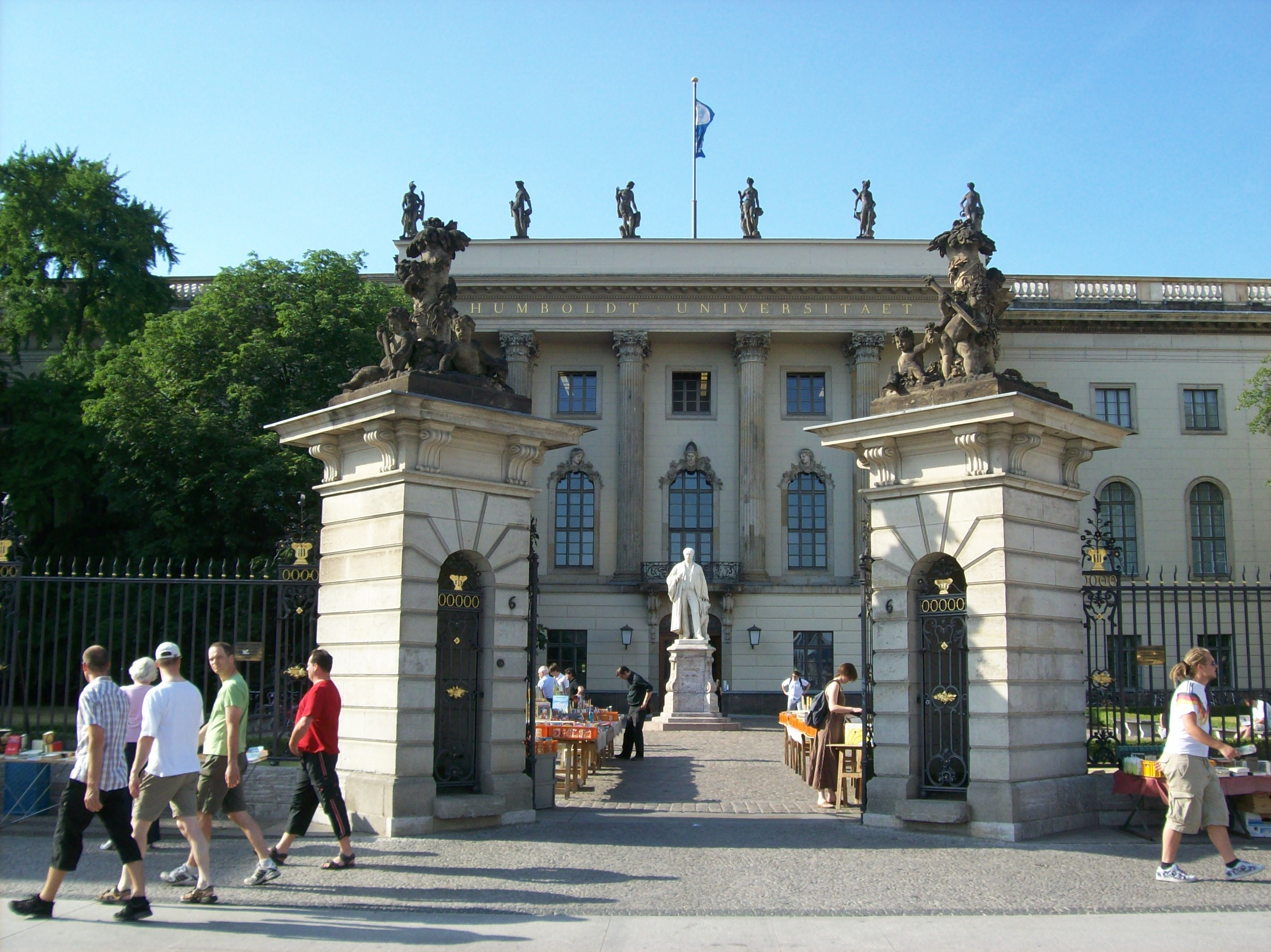 Front of the Humboldt University in Berlin